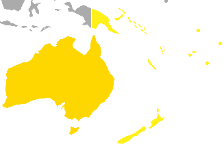 1=Shows teams of en:2006 FIFA World Cup qualification/oceania on a world map